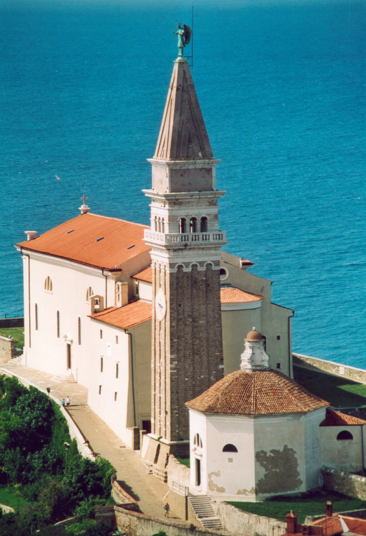 St. George's Church, Piran, Slovenia